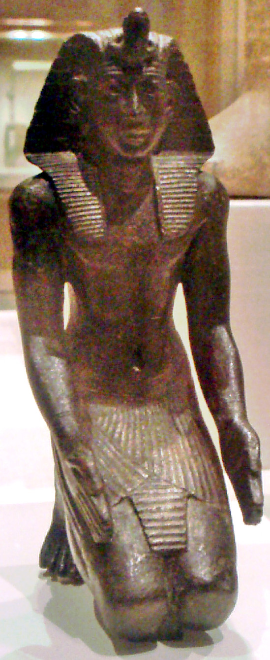 Bronze kneeling statuette of the pharaoh Necho (either Necho I, circa 673-664 B.C., or Necho II, circa 610-595 B.C.)